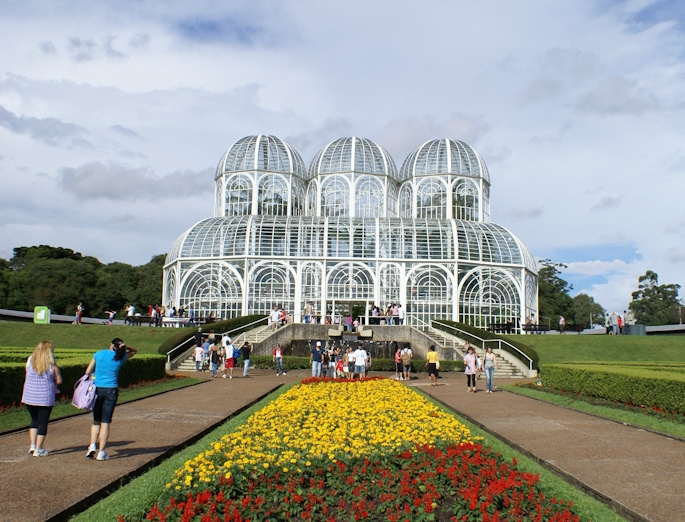 Opera de Arame [wire opera]. Botanical Garden (Jardim Botânico), Curitiba.